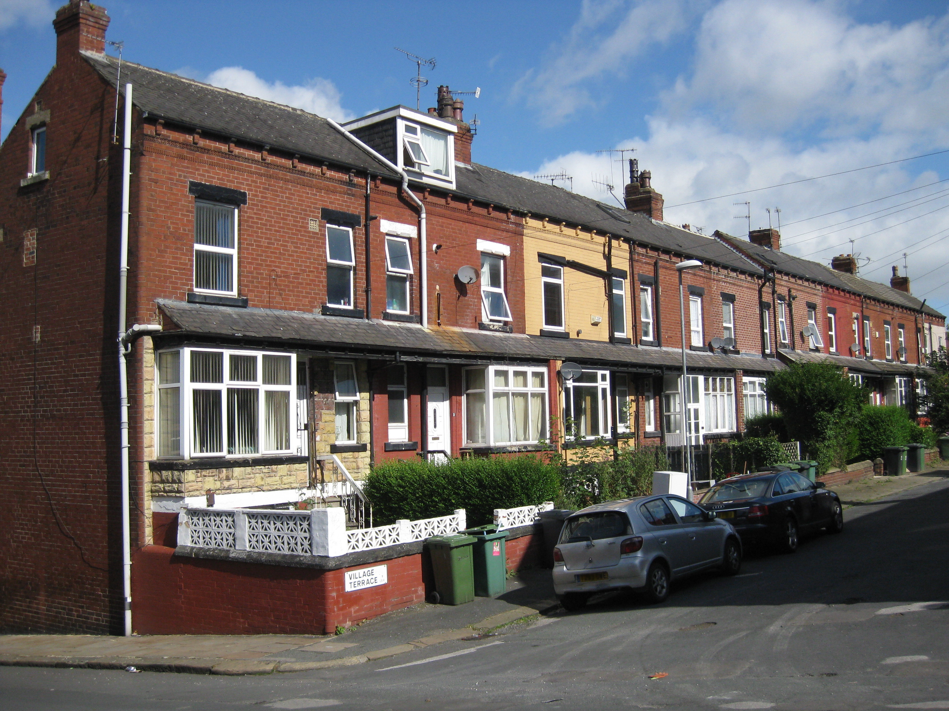 Terraced houses on Village Terrace, Burley, Leeds LS4 2NU